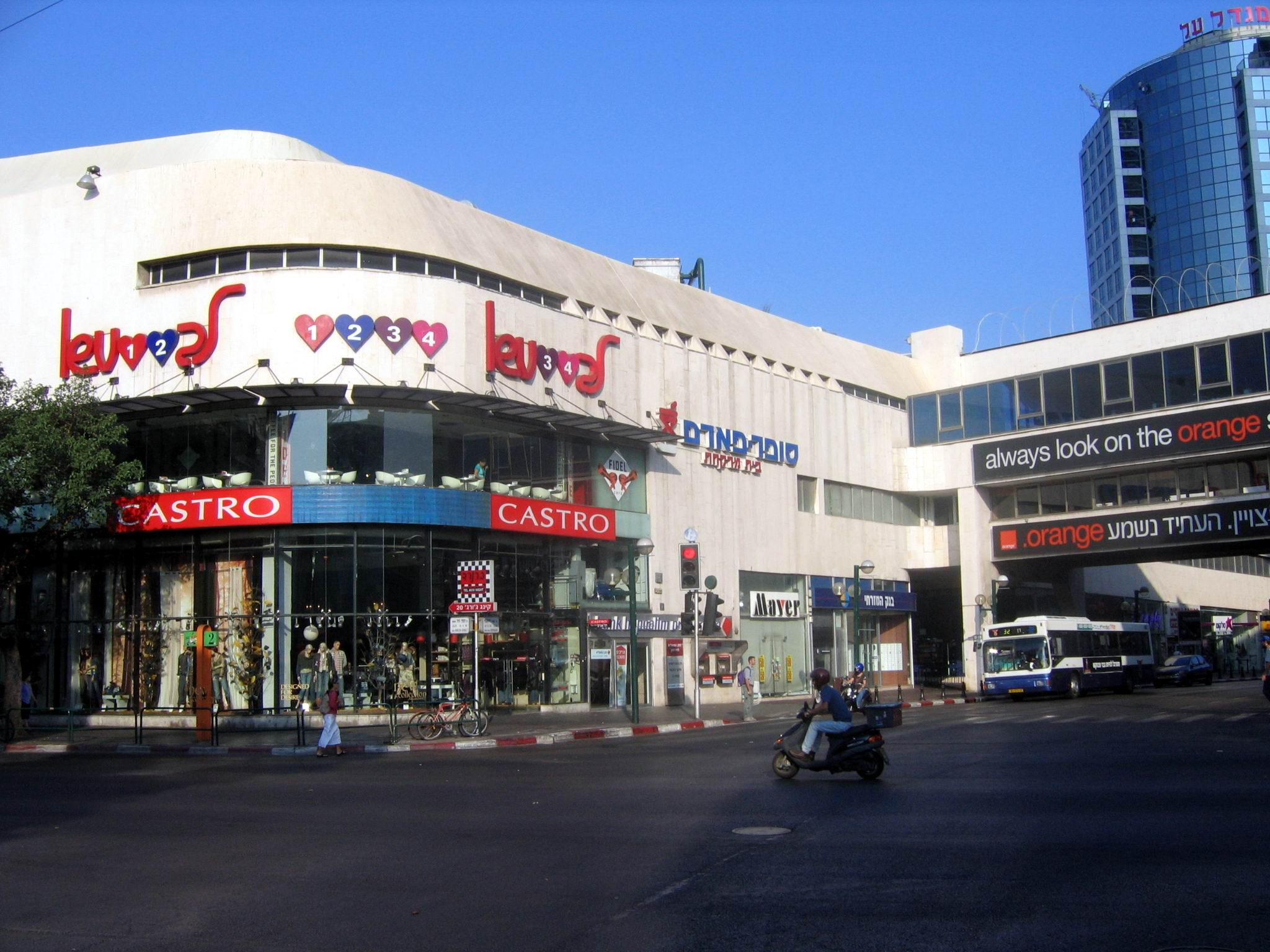 Dizengof Center in Tel Aviv, Israel. South building and east bridge. View from East, Kaplan Street. Taken on June 9th, 2005, by Benjamin Shlevich. Castro (clothing company) and SuperPharm (a pharmacy) store signs can be seen, as well, on the right, an ad for "Orange," a cell-phone provider can be seen.